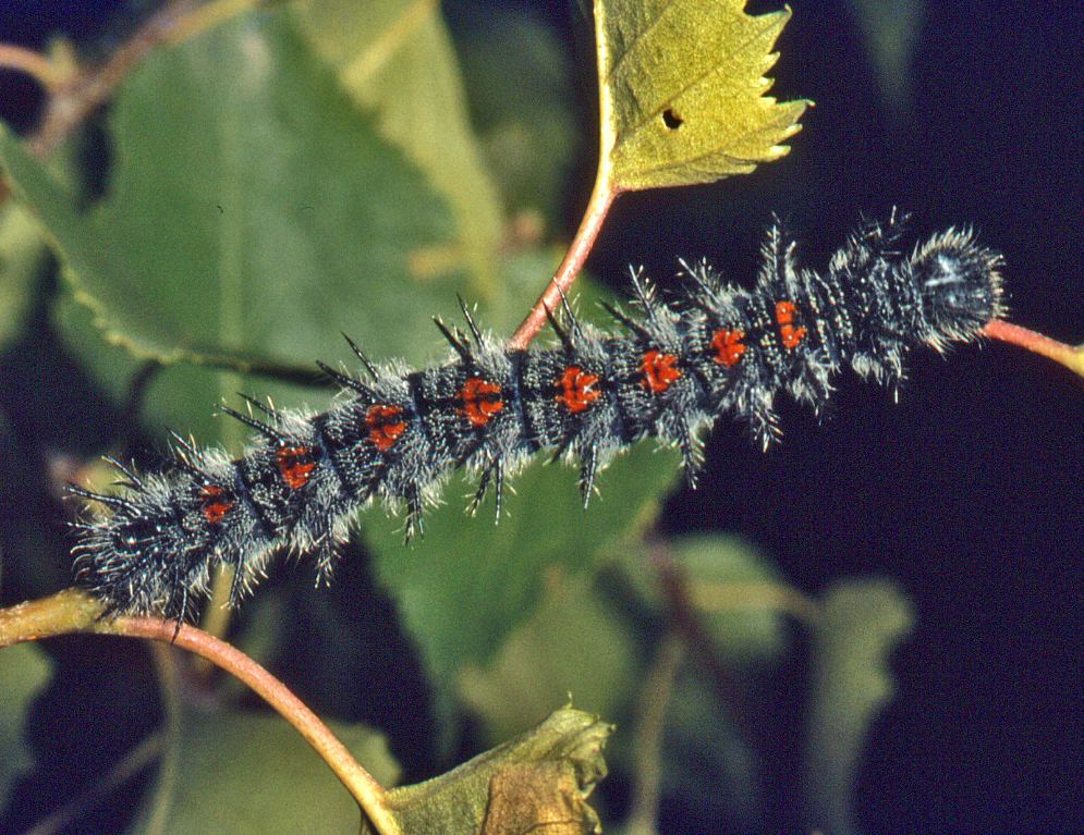 Nymphalis antiopa. Pragelato, Torino, Italy